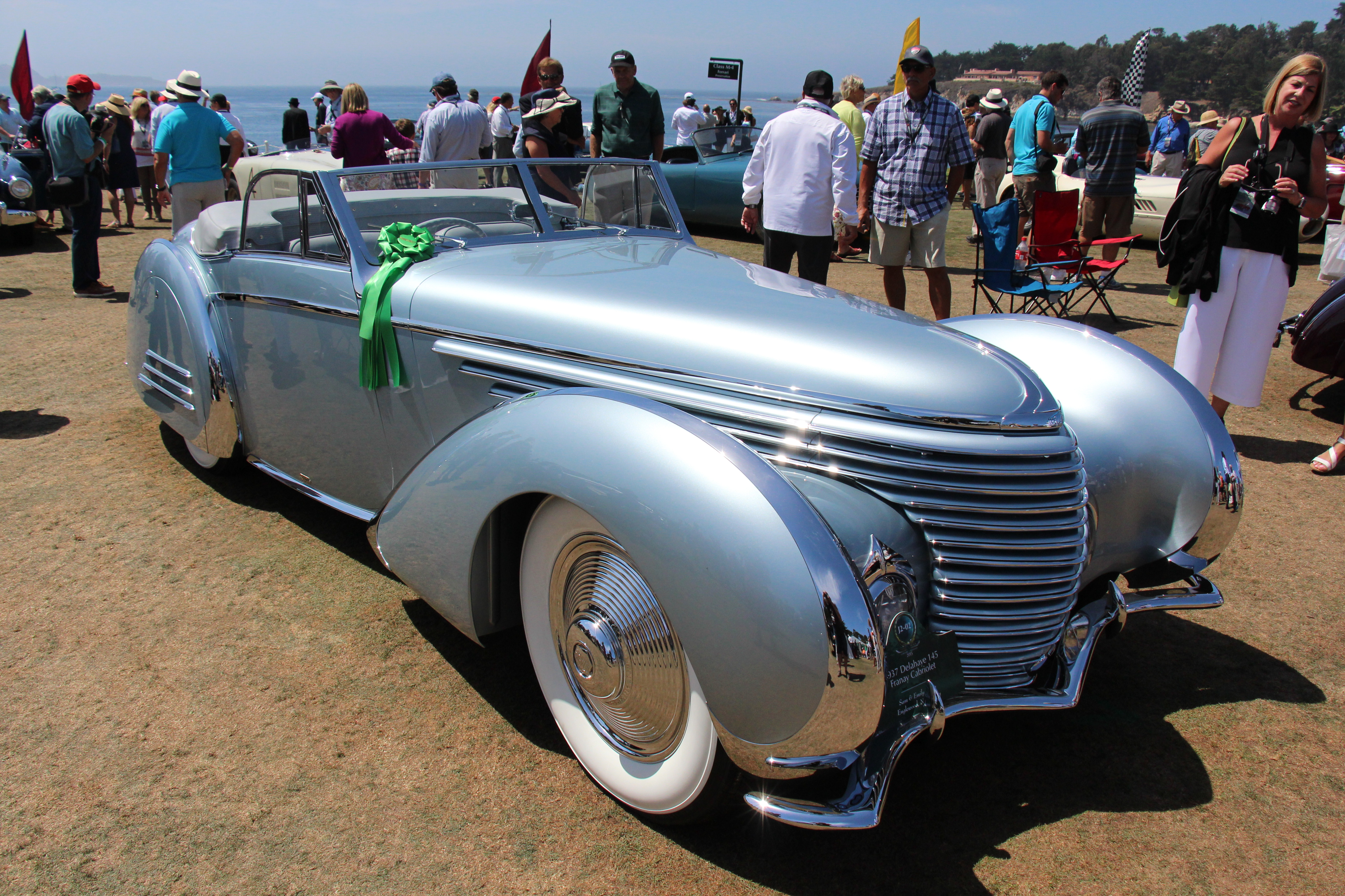 This Delahaye began its storied life in 1937 as a 12-cylinder Grand Prix race car before its chassis was discarded in favor of a futuristic cabriolet. In the early 1980s, it was acquired by the designer Phillippe Charbonneaux, who removed the cabriolet body and installed it on a new chassis and fabricated a new race car body on the V-12 chassis. In 1997, its New Jersey-based new owner acquired both cars and reunited the original race chassis and the original cabriolet body. Photographed at the 2015 Pebble Beach Concours d'Elegance